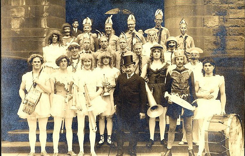 Portrait of the Whiffenpoofs of 1912, dressed in tutus, with Louie Linder, the longtime proprietor of the Temple Bar in New Haven, Connecticut. [1] Linder is wearing a top hat, and is surrounded by members of the Mohicans, a Yale social club. Posed in front of the Chittenden Library. Photograph courtesy of the Yale University Manuscripts and Archives Digital Images Database. Retouched by MarmadukePercy.